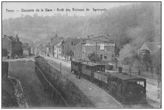 Normal gauge steamtram of the Belgian NMVB/SNCV in Trooz.